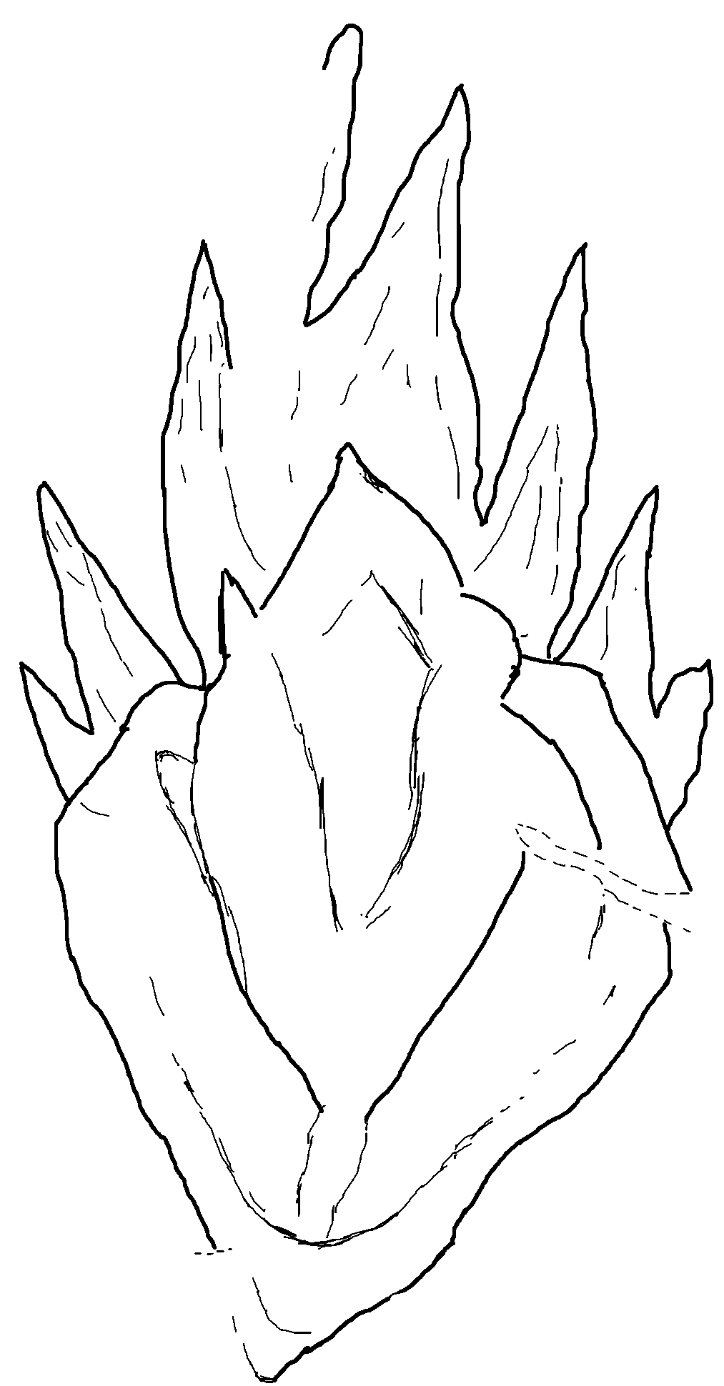 Tracing of Paralogania sp. scale